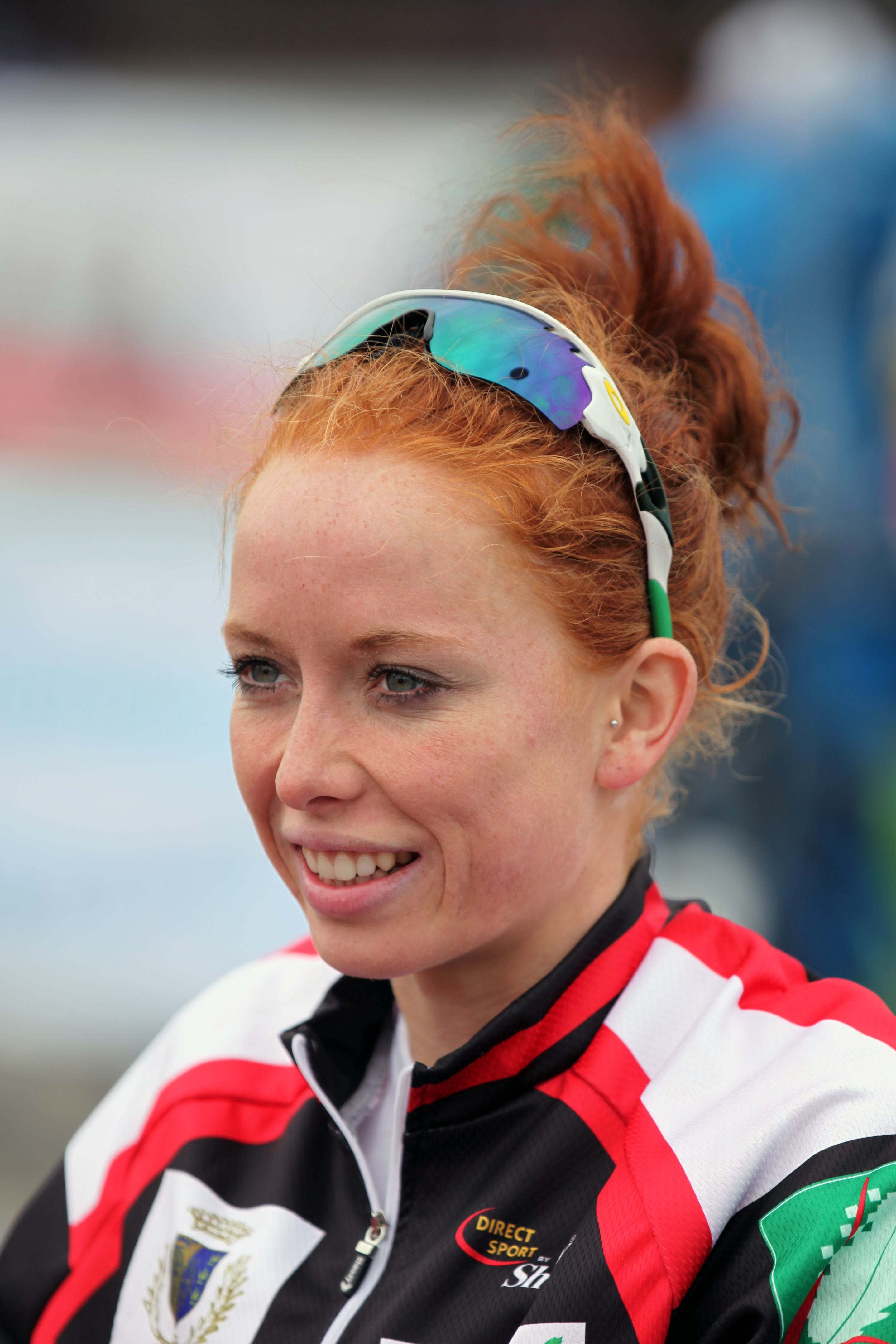 Charlotte McShane at the French Grand Prix opening triathlon in Dunkirk (Dunkerque).